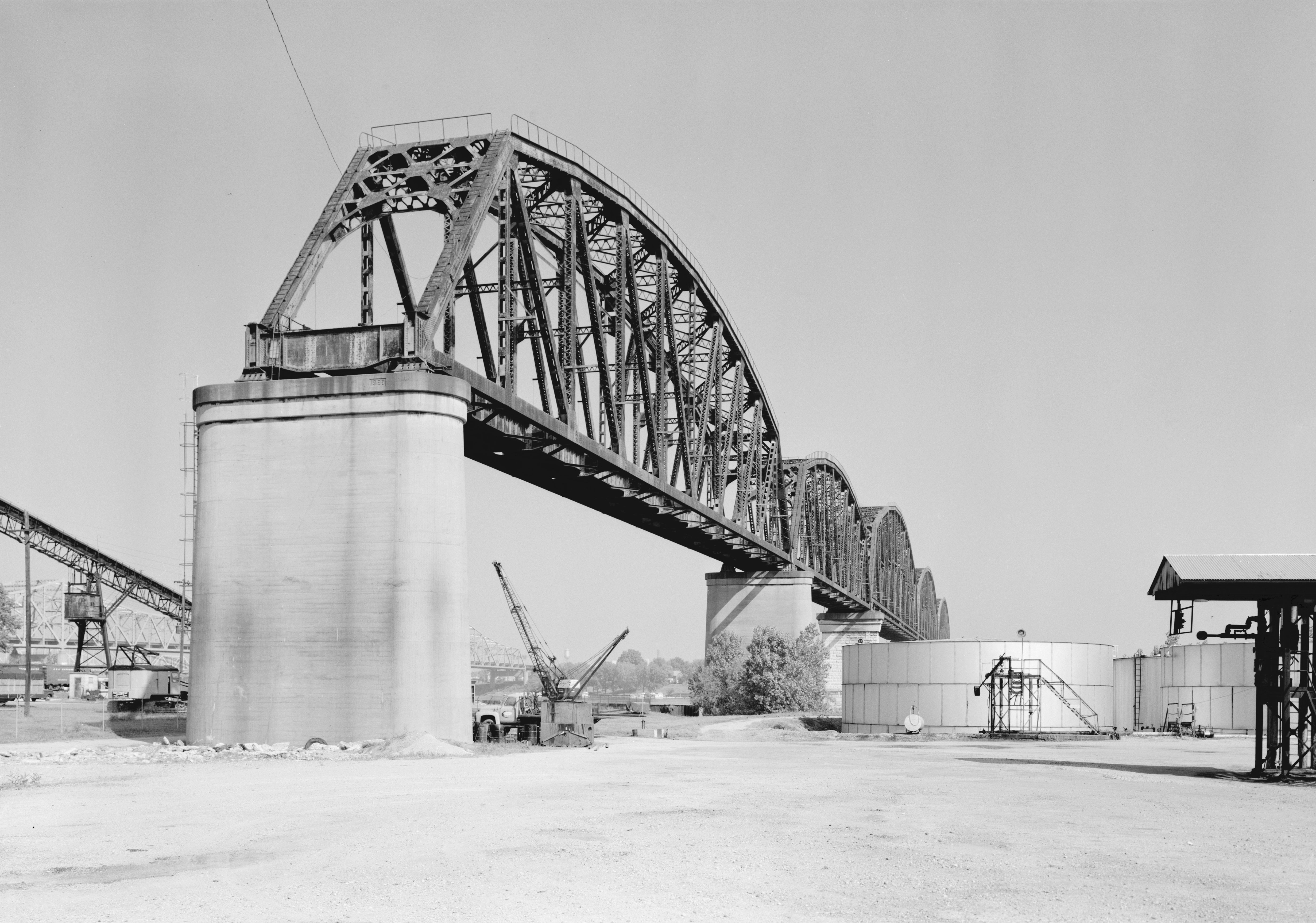 Big Four Bridge, Spanning Ohio River, Louisville, Jefferson County, KY General view of southern approach span. Date: May, 1975 Photographer: Jack Boucher